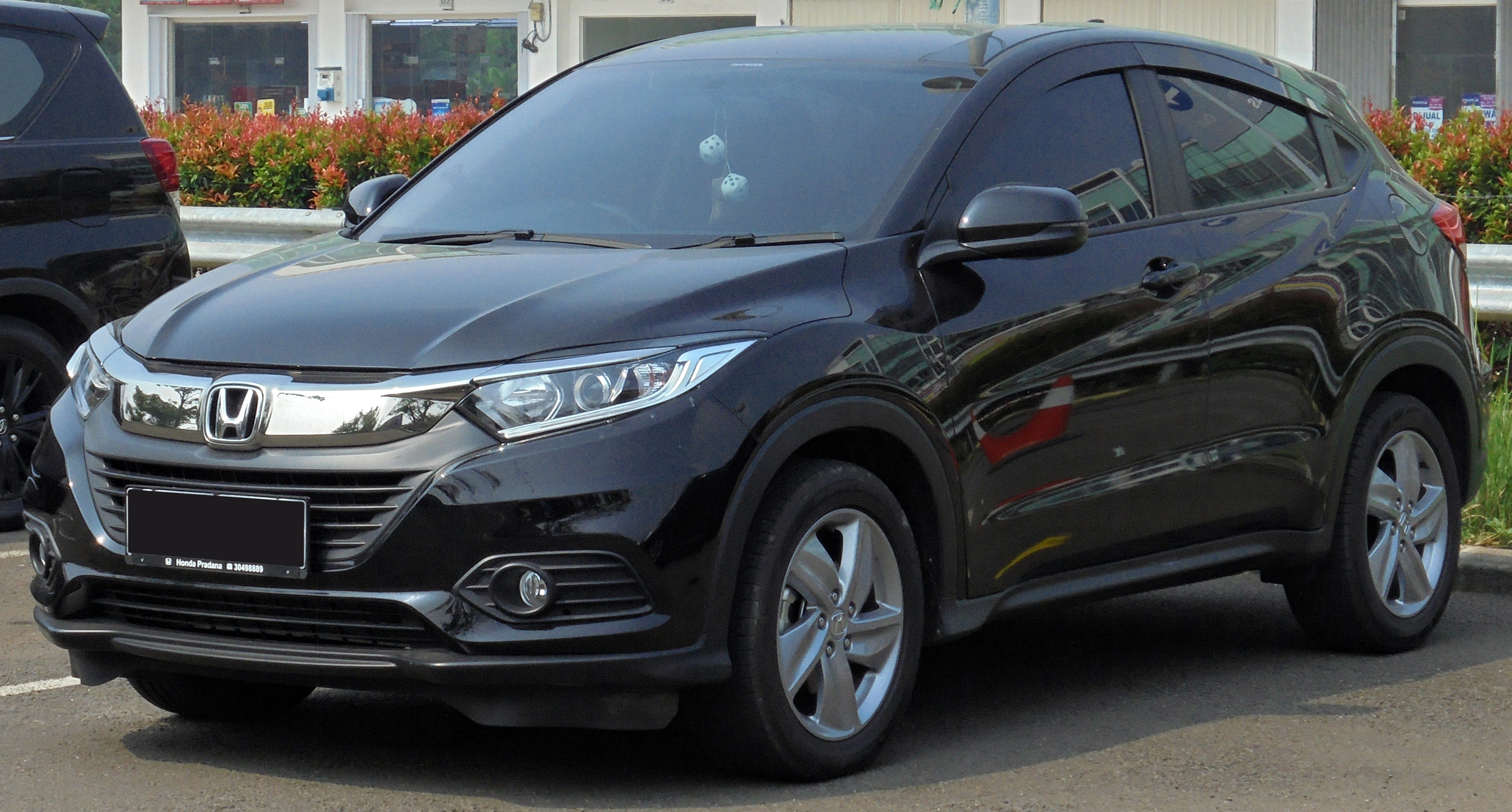 2019 Honda HR-V 1.5 S (RU1)